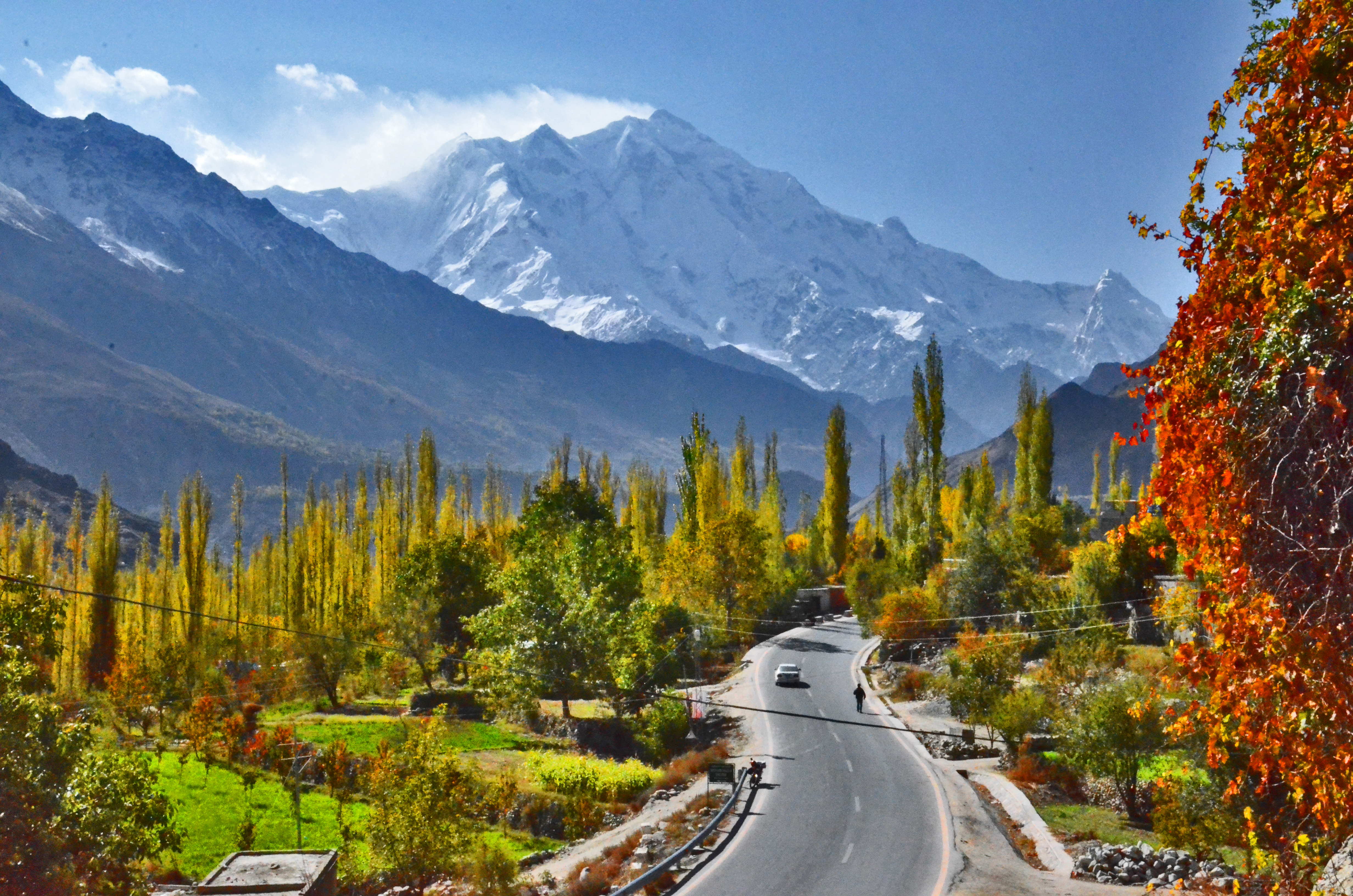 Rakaposhi Peak, Nagar GB (Pakistan)